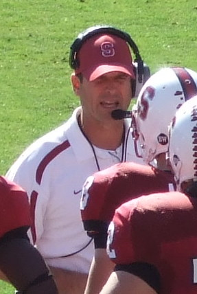 Jim Harbaugh coaches Stanford against TCU on October 13, 2007.